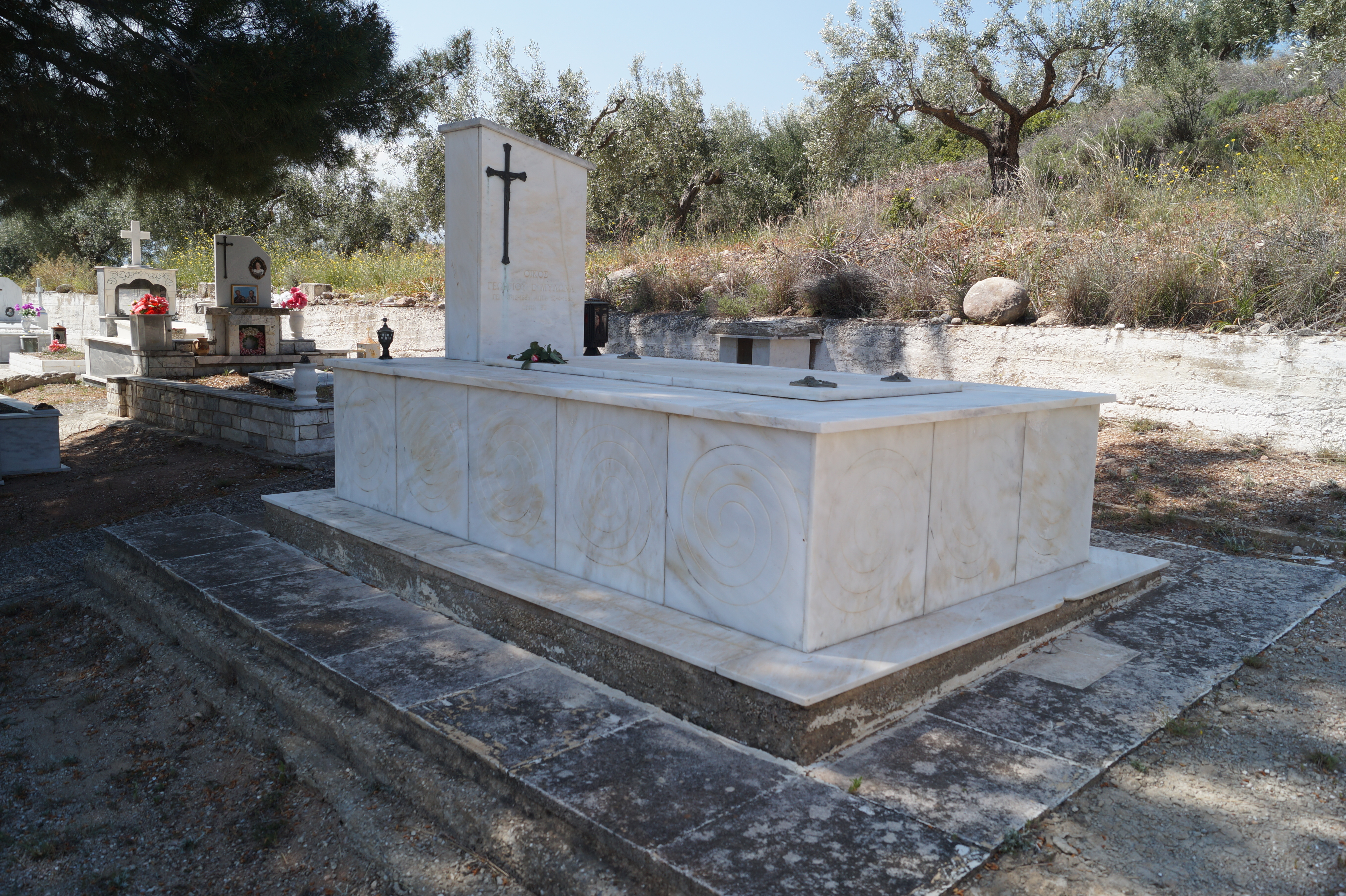 Mykines, Argolis, Greece: Tomb of George Emmanuel Mylonas on the cemetery of Mykines.